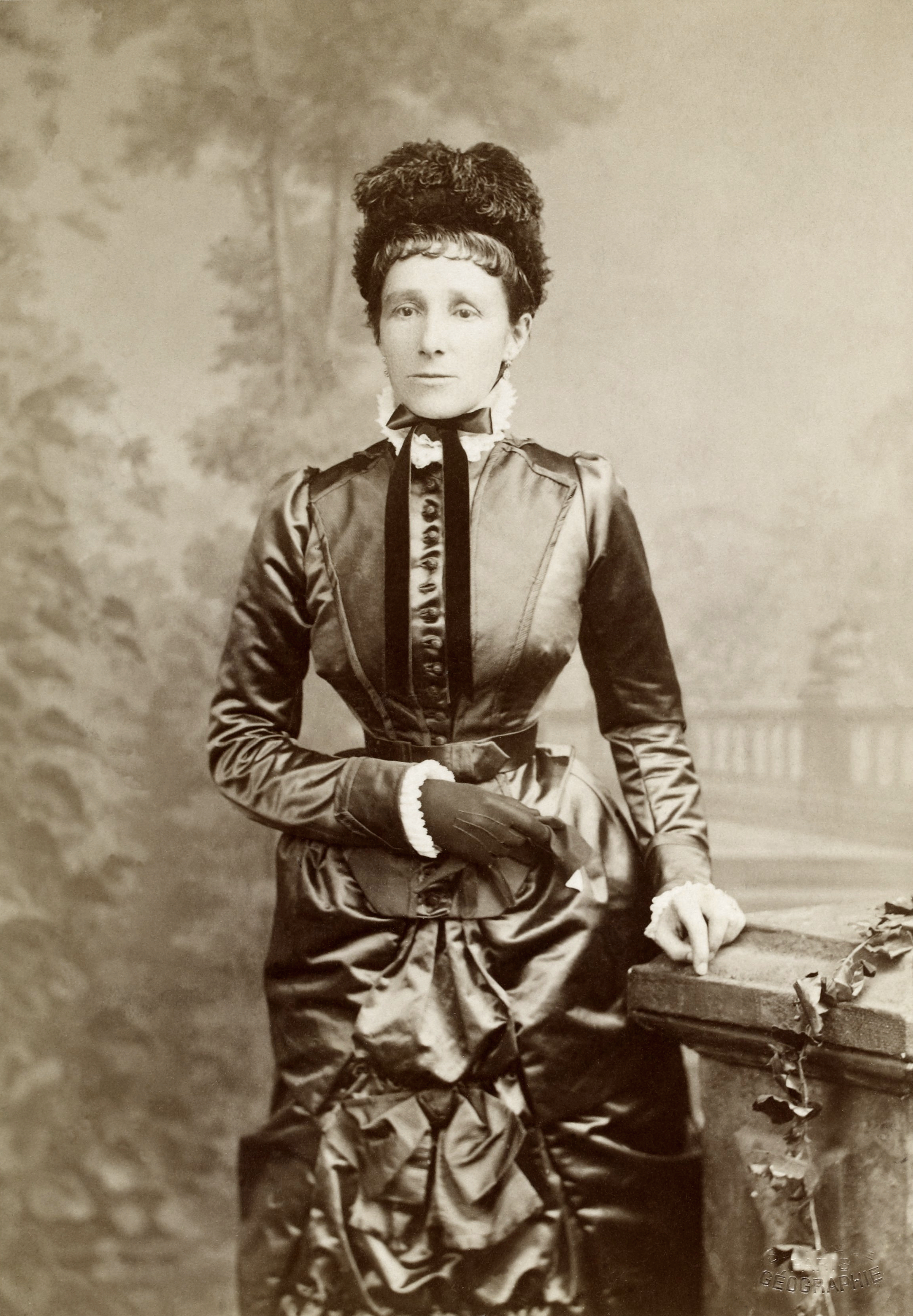 Anne Blunt, 15th Baroness Wentworth (1837 - 1917), british explorer of the Middle-East, co-founder, with her husband the poet Wilfrid Scawen Blunt, of the Crabbet Arabian Stud.